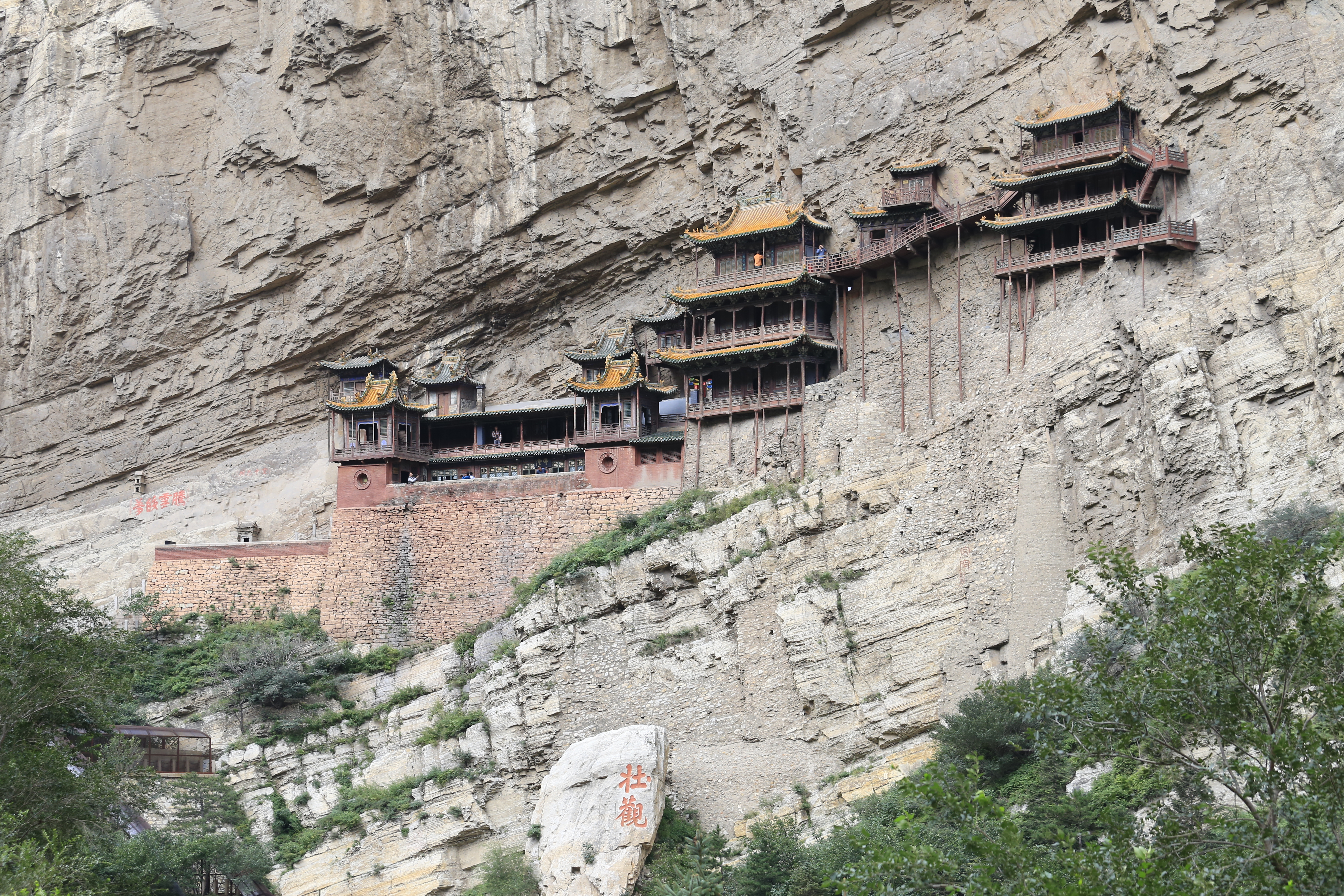 The Hanging Temple (Hanging Monastery or Xuankong Temple) is a temple built into a cliff (75 m / 246 ft above the ground) near Mount Heng in Hunyuan County, Datong City, Shanxi province, China.